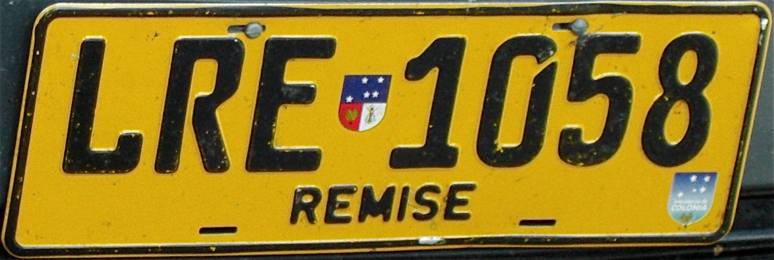 Uruguay vehicle registration plate issued to a livery vehicle in Colonia Department.